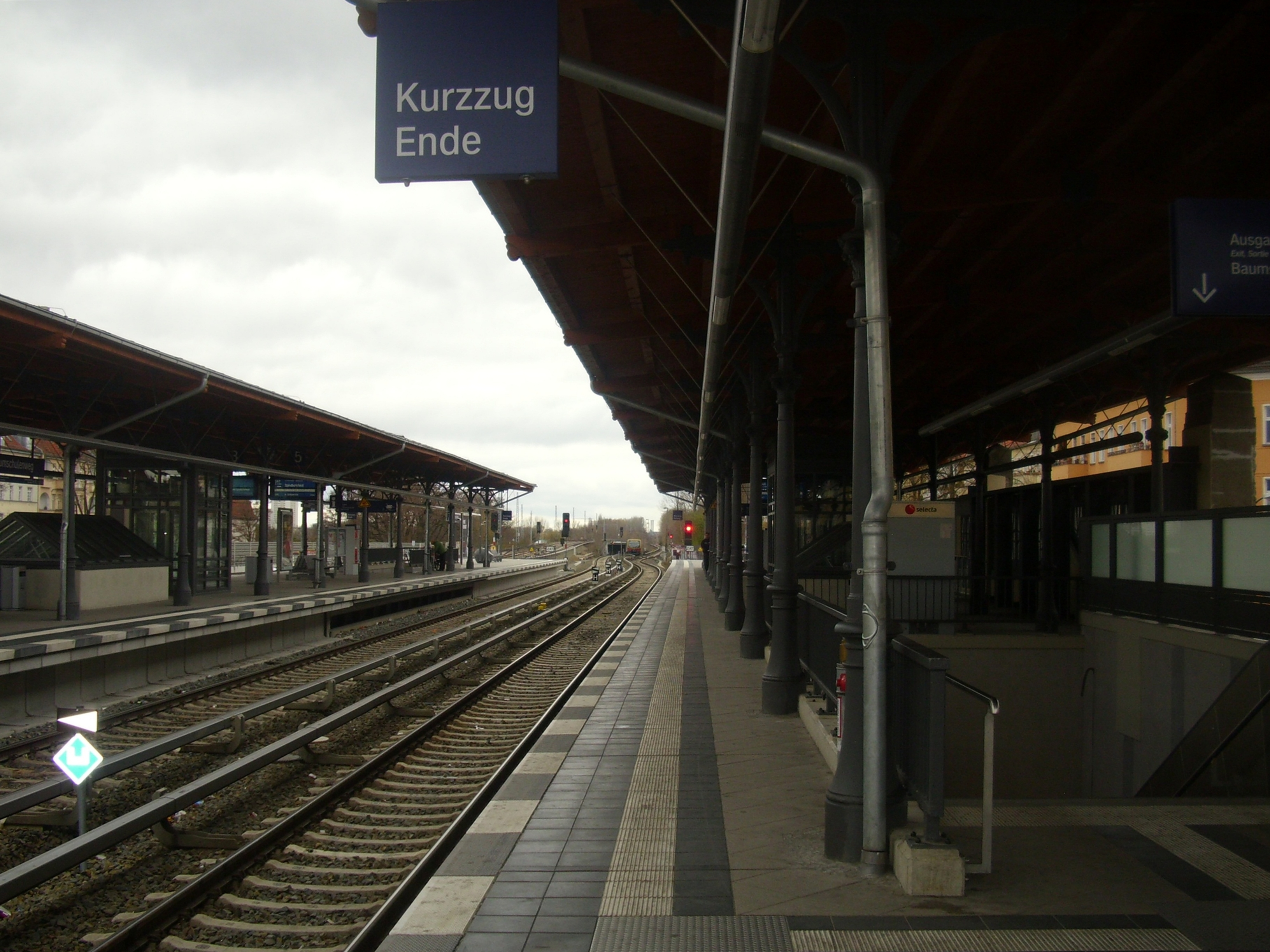 New railway station Berlin-Baumschulenweg after reconstruction.